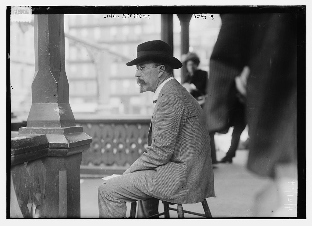 Lincoln Steffens in 1914 Bain News Service,, publisher. Linc. Steffens (3/4 seated) [between ca. 1910 and ca. 1915] 1 negative : glass ; 5 x 7 in. or smaller. Notes: Title from unverified data provided by the Bain News Service on the negatives or caption cards. Forms part of: George Grantham Bain Collection (Library of Congress). Format: Glass negatives. Repository: Library of Congress, Prints and Photographs Division, Washington, D.C. 20540 USA, General information about the Bain Collection is available at Persistent URL: Call Number: LC-B2- 3044-4